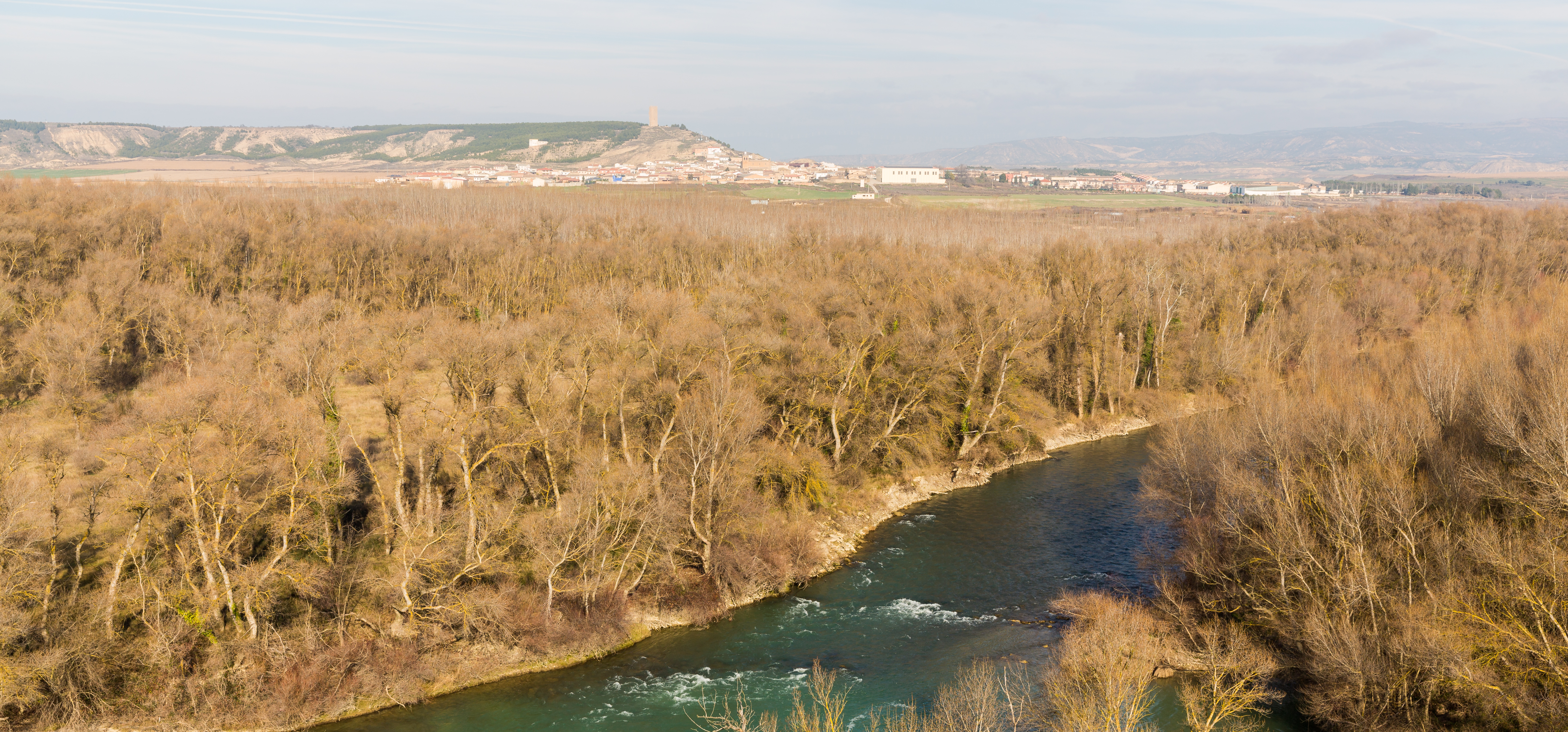 Outlook of Mélida, SCI Tramos Bajos del Aragón y del Arga, Navarre, Spain